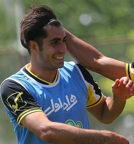 Siamak Kouroshi